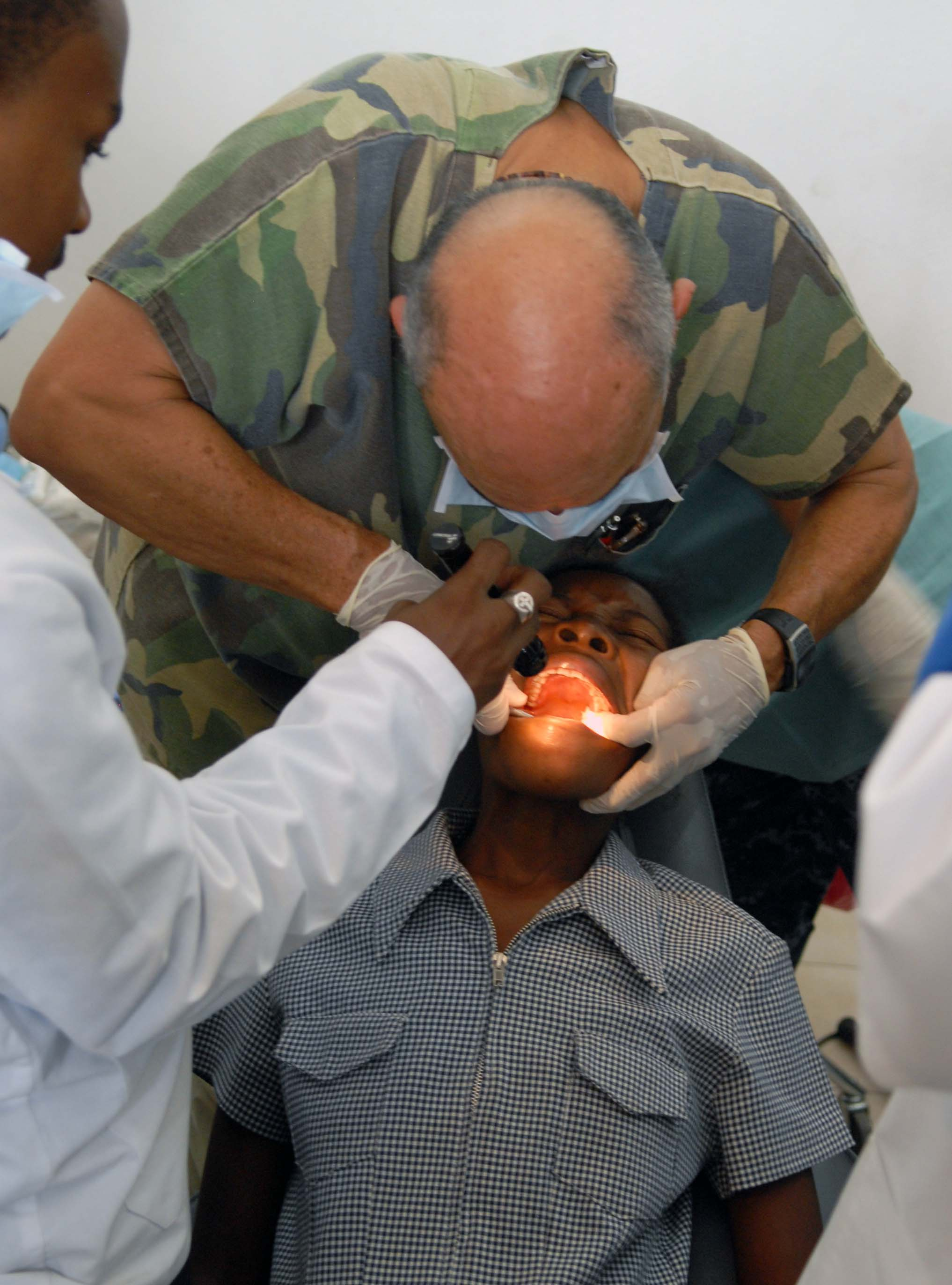 KILLICK, Haiti (April 10, 2009) A Haitian dentist and a staff member embarked aboard the Military Sealift Command hospital ship USNS Comfort (T-AH 20) extract a tooth from a Haitian patient during a Continuing Promise 2009 medical community service project in Killick, Haiti. Continuing Promise is a four-month equal partnership humanitarian and civic assistance mission between the United States and international partners to provide support programs afloat and ashore in seven countries in Latin America and the Caribbean. (U.S. Navy photo by Mass Communication Specialist 3rd Class Marcus Surorez/Released)